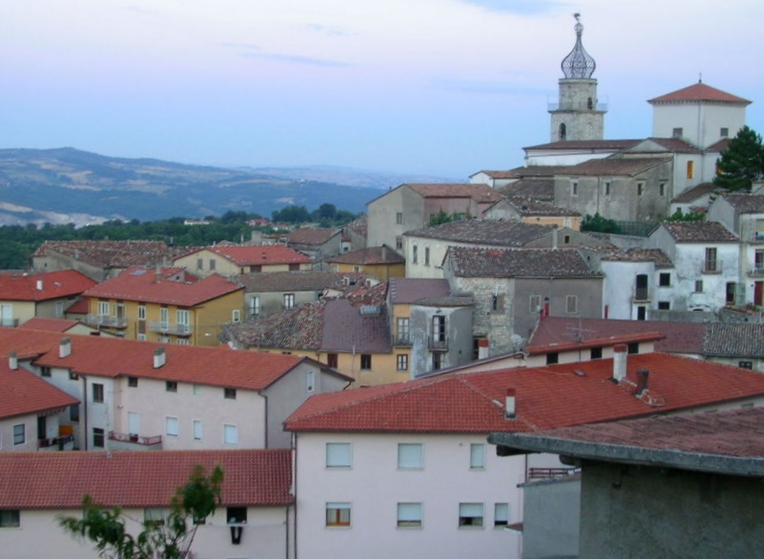 Sepino rooftops